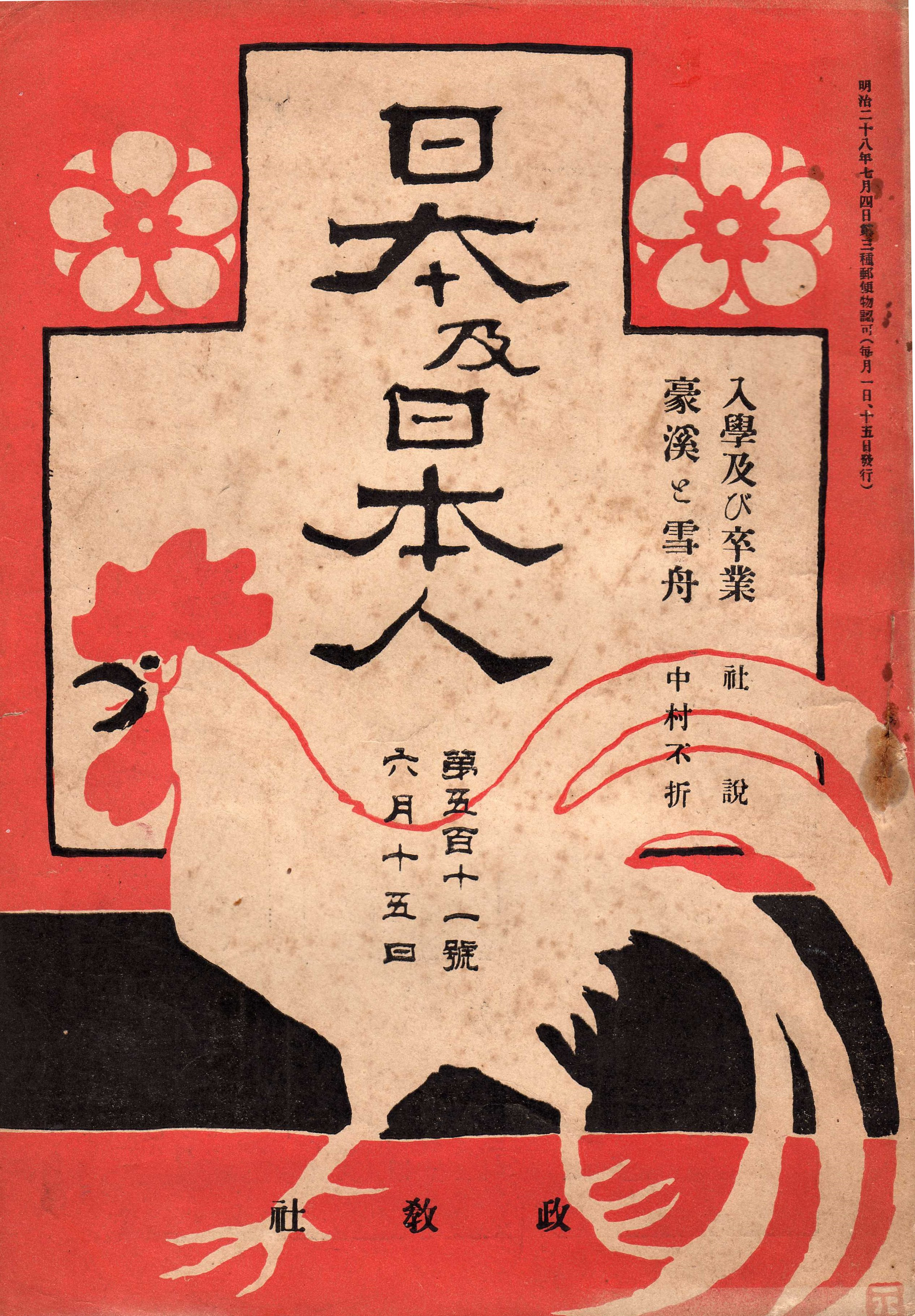 NihonOyobiNihonjin（Japan and Japanese) was a Japanese political magazine published from January 1907 until December 1944.